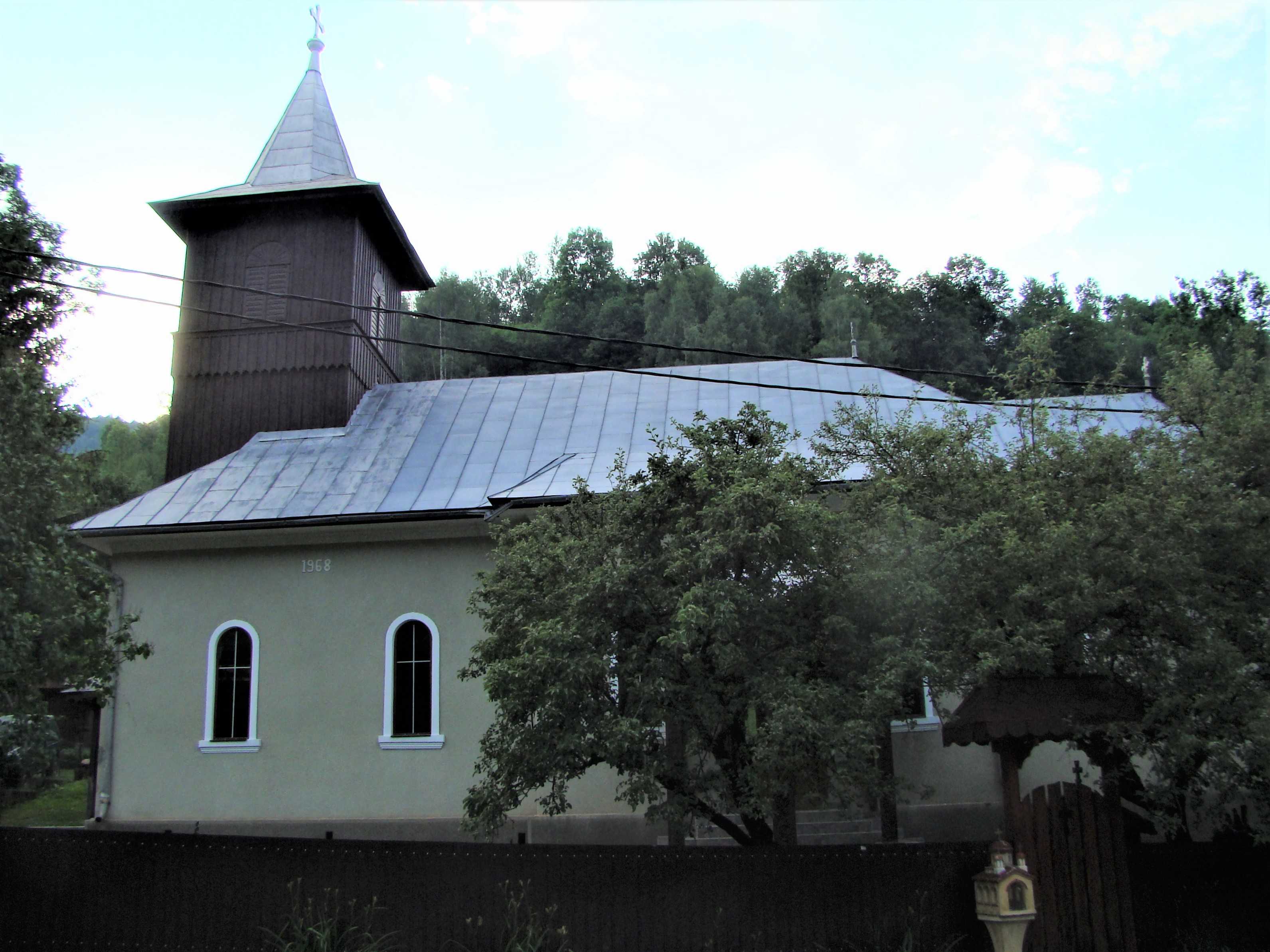 Wooden church in Muntele Băișorii, Cluj County, Romania